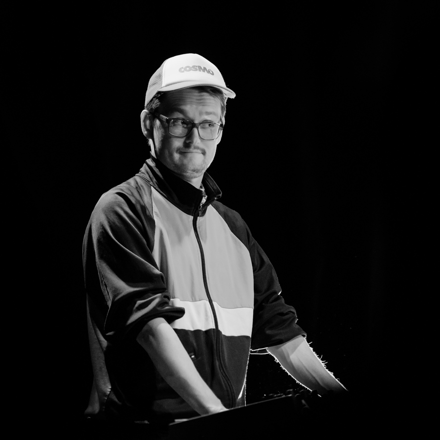 Ivan Blomqvist with Mosambique at Victoria Teater. The concert took place on 06. April 2019 in Oslo. Lineup:Ivan Blomqvist (keyboard)Lauritz Lyster Skeidsvoll (saxophone)Lyder Øvreås Røed (trumpet)Kristian B. Jacobsen (bass guitar)Henrik Lødøen (drums)